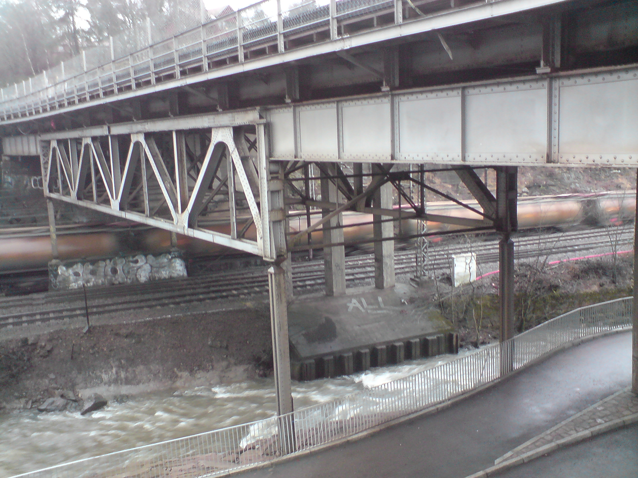 Subway-train bridge from 1923 passing river Alna at Bryn in Oslo